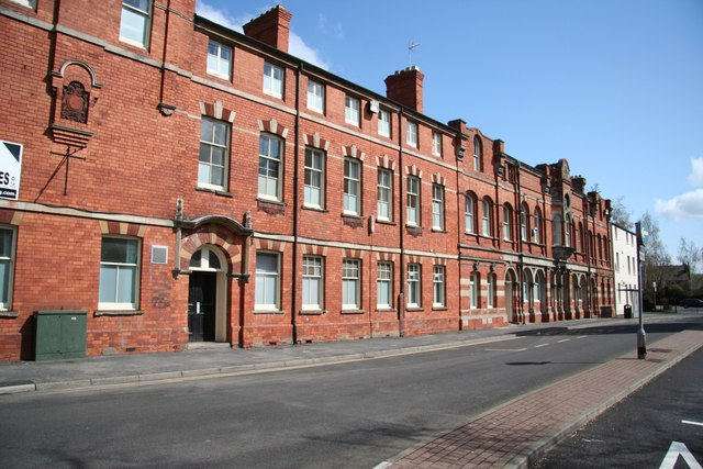 Unity Square Former Oddfellows Hall in Unity Square off Broadgate, now student accommodation